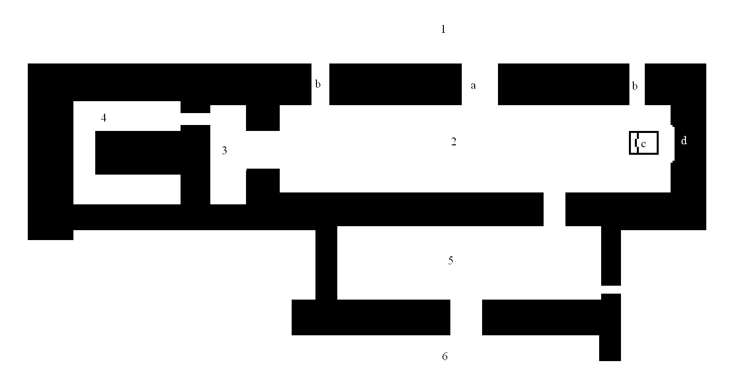 Principal Reception Unit of a neoassyrian Palace in dependence of the PRS of the northwestern Palace of Nimrud.